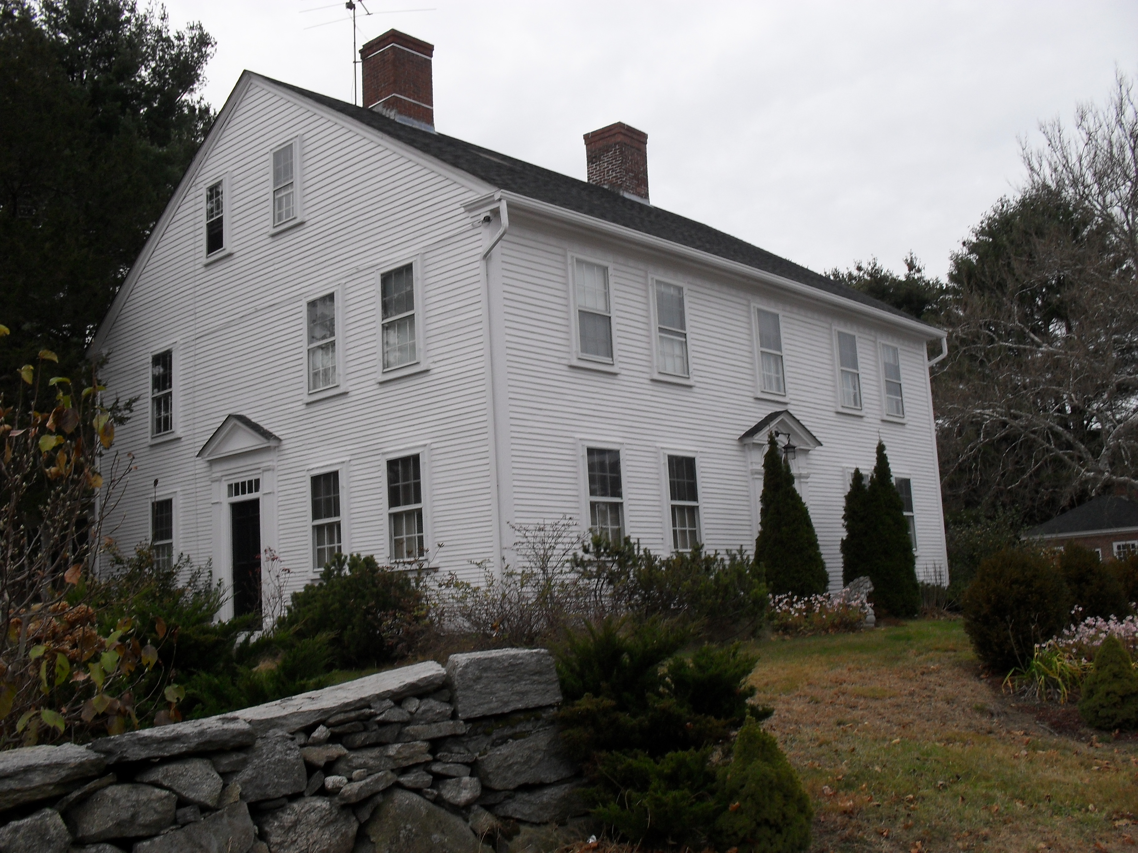 Bazaleel Taft Jr. House and Law Office, Uxbridge, MA, gathering place for famous Taft family, Alphonso Taft delivered an impassioned speech here in 1874. photo taken Nov. 11, 2009